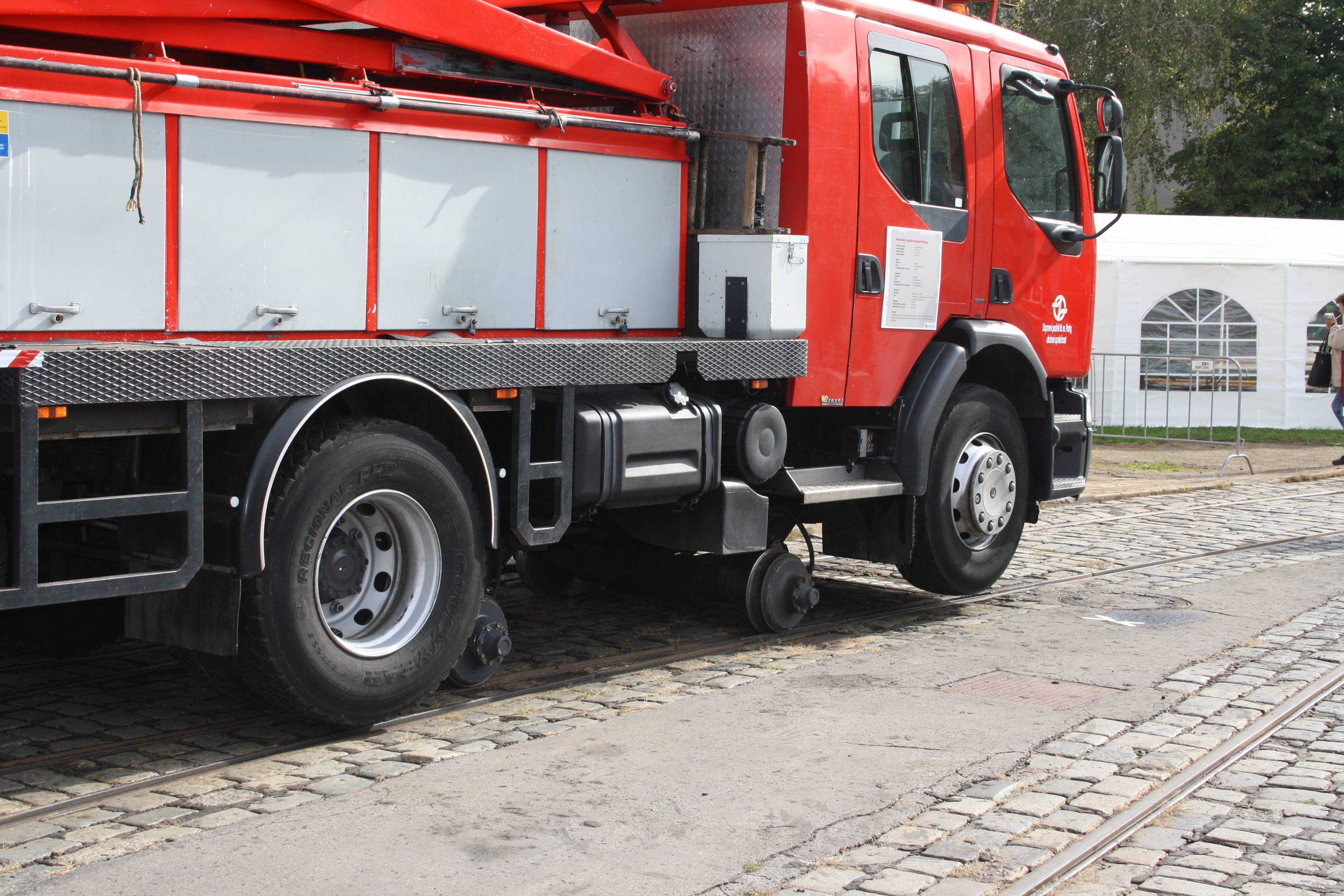 Tower truck/Road rail vehicle